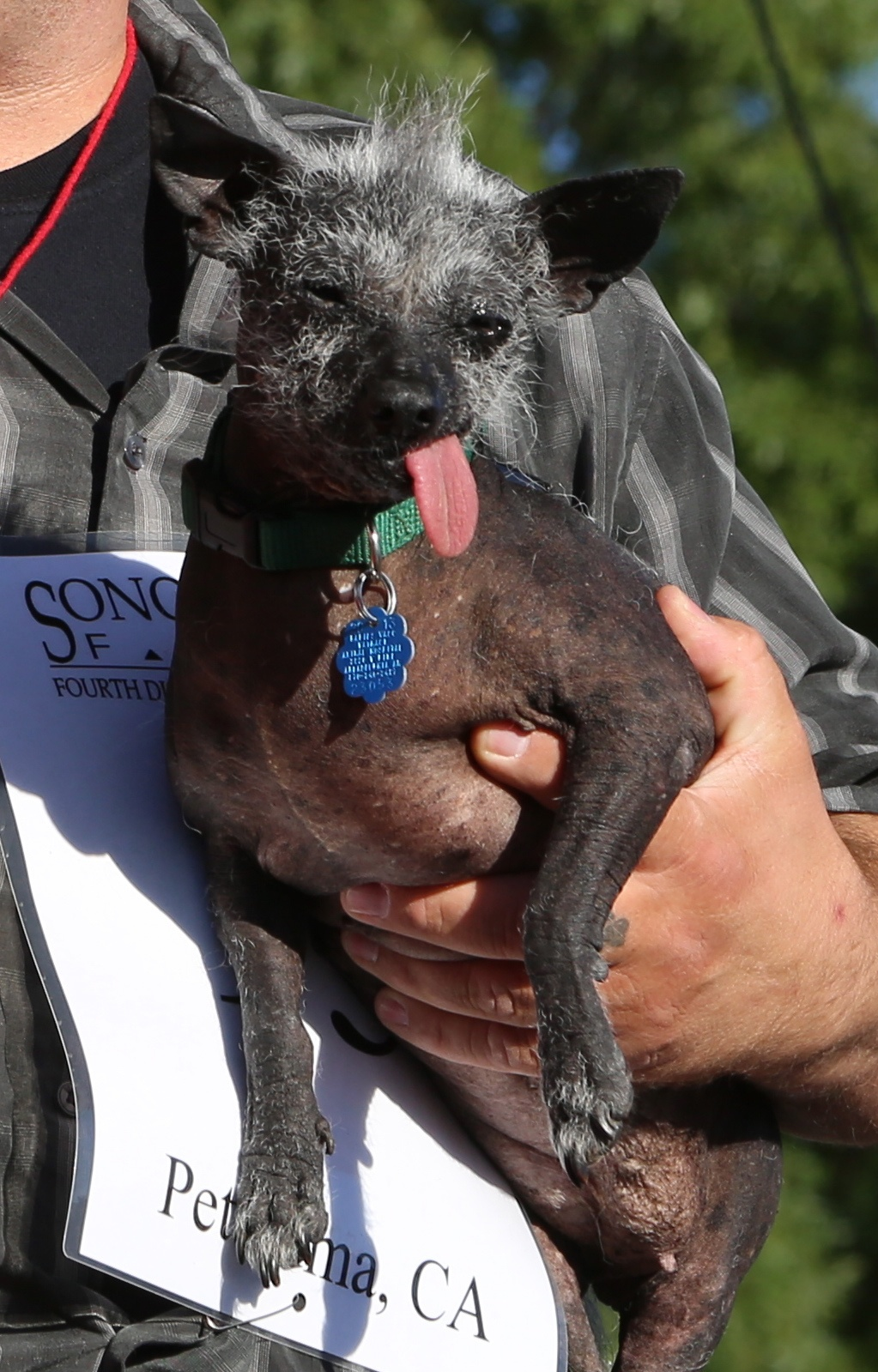 This guy loved his ugly dog, lolling tongue and all. I liked it that you could see it in his face. And the dog trusted him to do the right thing. (At the World's Ugliest Dog Contest.)